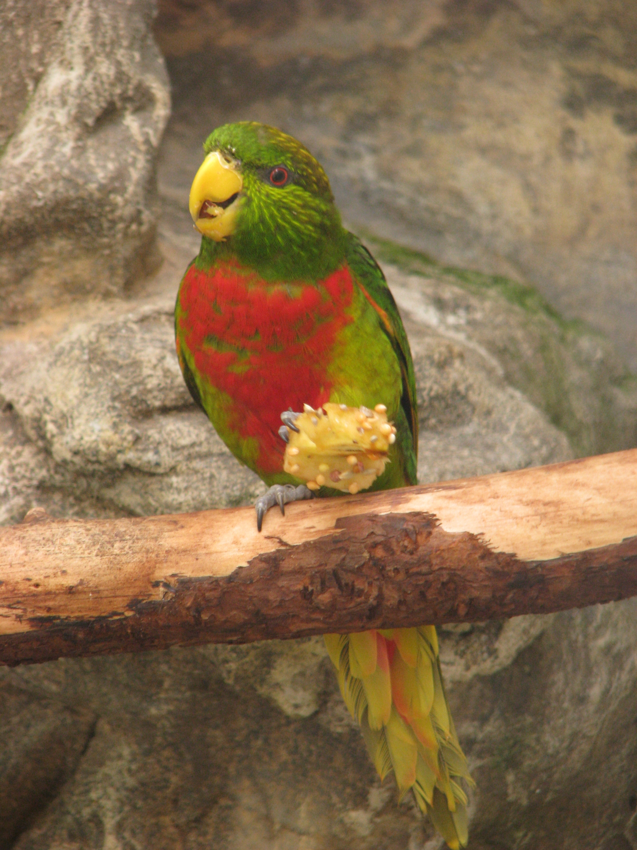 Musschenbroek's Lorikeet (Neopsittacus musschenbroekii) at Loro Parque (Spain, Tenerife)